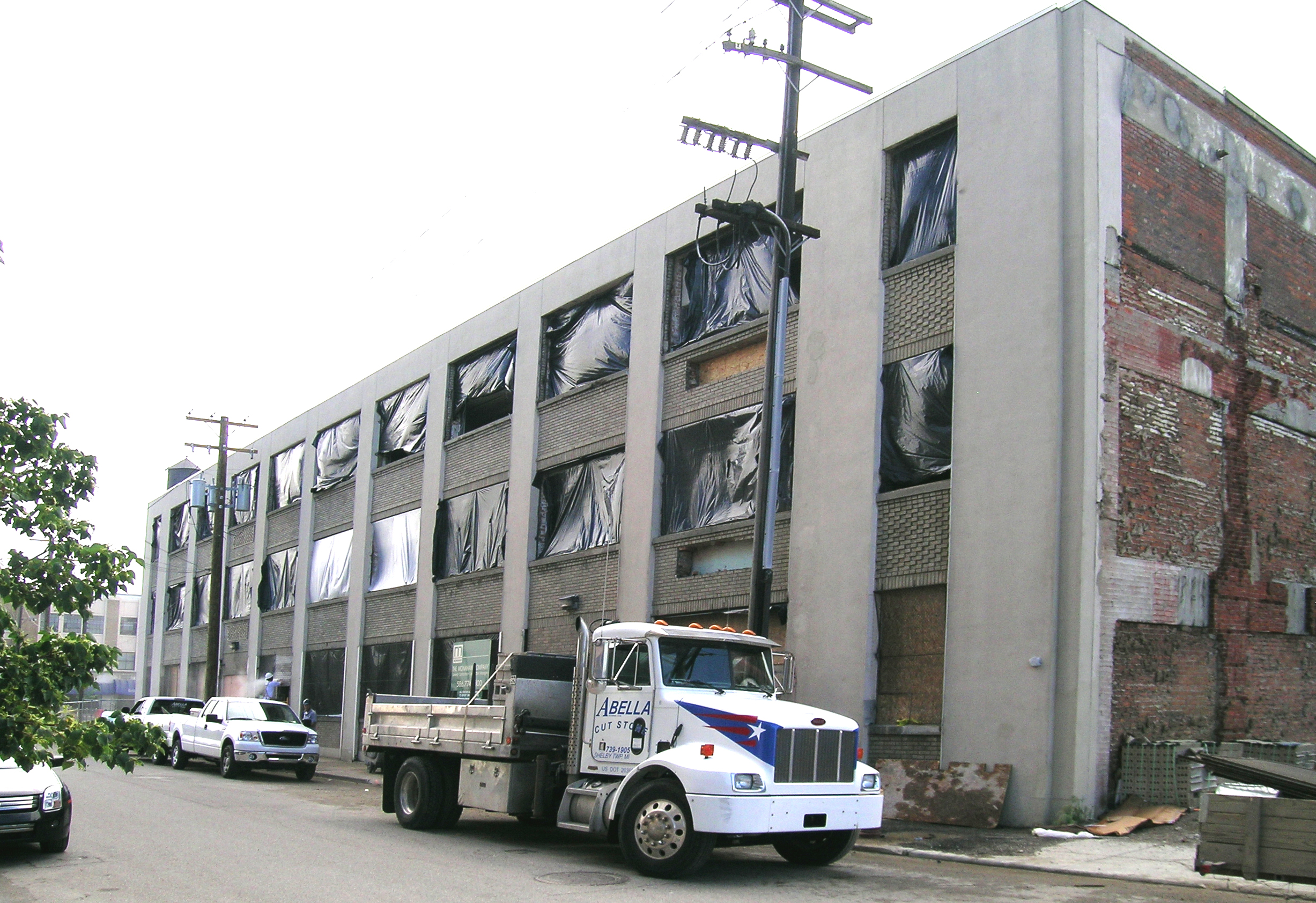 This building at 435 Amsterdam Street, Detroit, Michigan, United States, lies within the New Amsterdam Historic District.